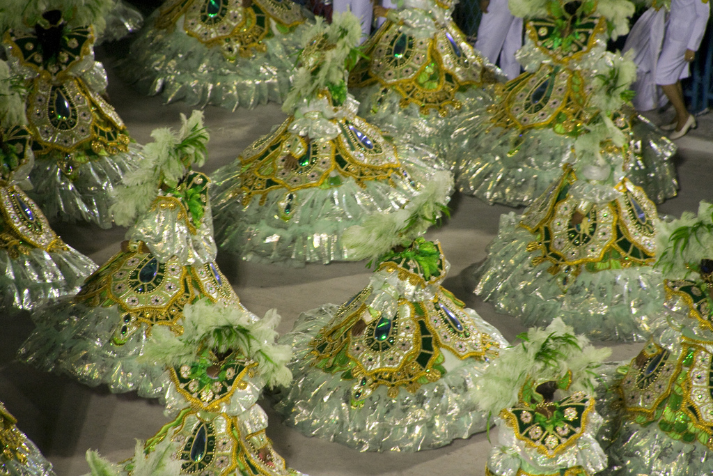 Author Tim Fearn